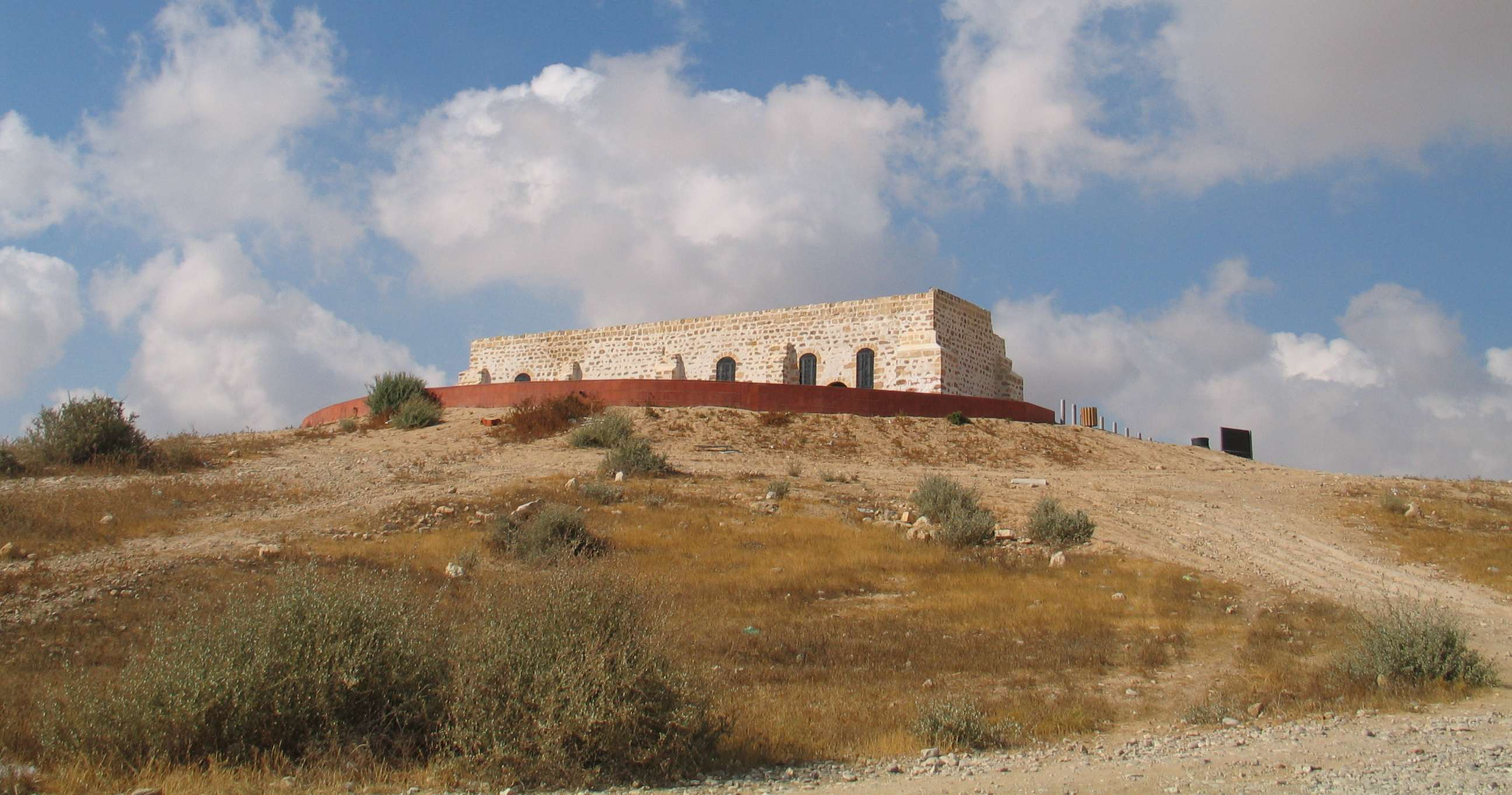 Patish fortress, Ofakim, Israel.